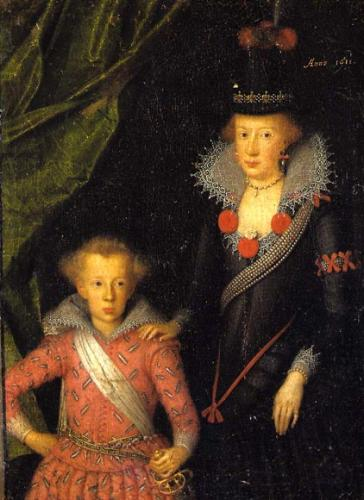 Portrait of Anne Catherine of Denmark with Christian, Prince Elect, 1611.